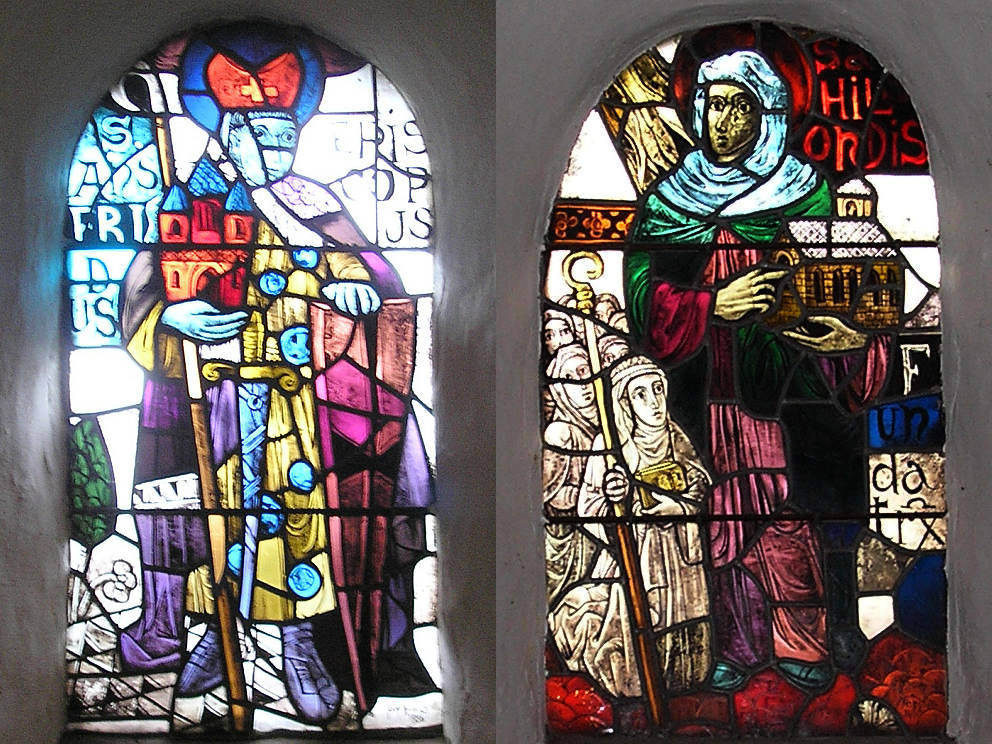 Ansfried of Utrecht and his wife Hereswint (or Hilsondis) founders of the abbey of Thorn (Limburg, Netherlands) on two stainded glass windows in the roman crypt of the St.Michael church in Thorn. Both windows 1956 by Joep Nicolas.Location: Thorn, Limburg, Netherlands